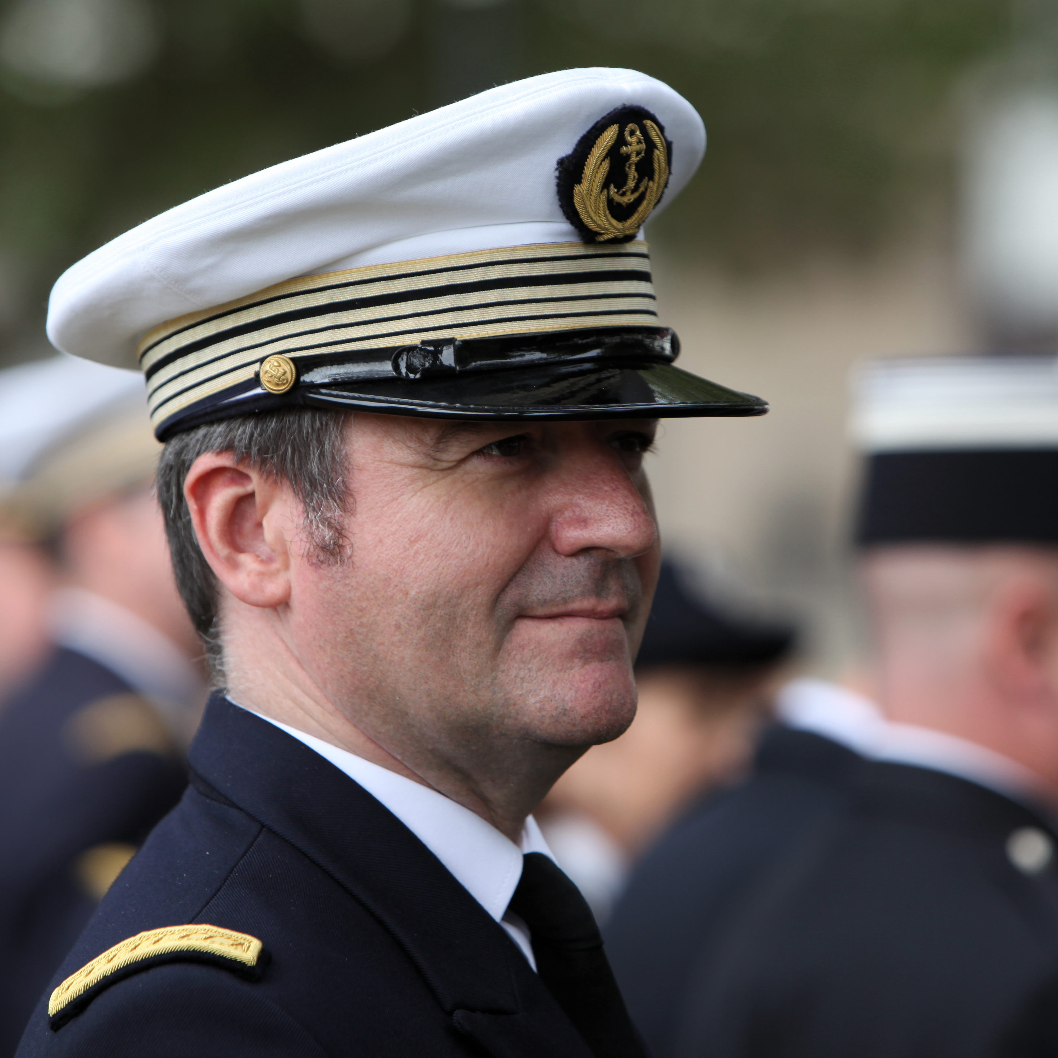 A Captain of the French Navy during the ceremonies of the 14th of July 2015 in Brest.